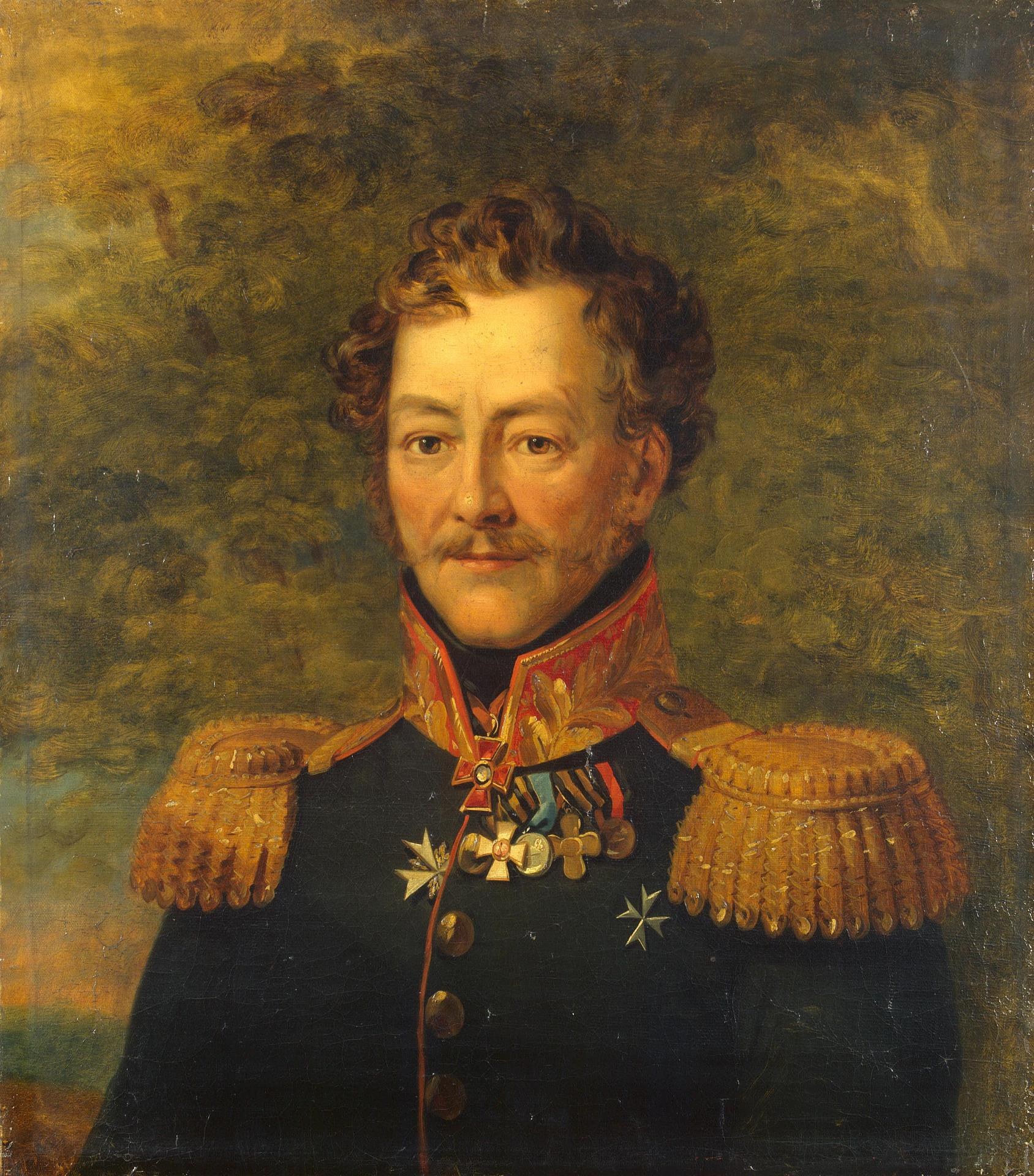 Argamakov, Ivan Vasilyevich